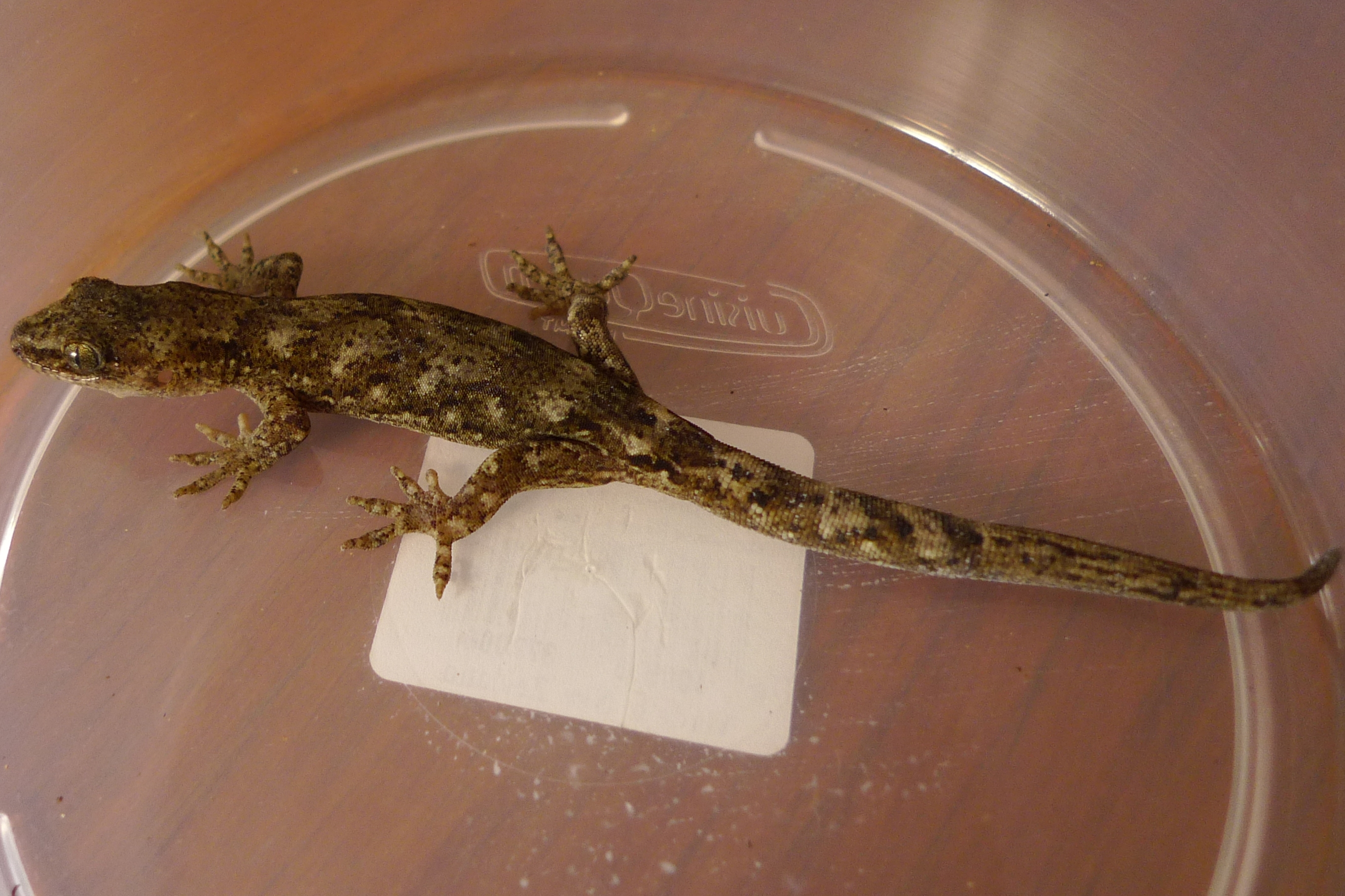 Common gecko; Thane Road, Roseneath, Wellington.